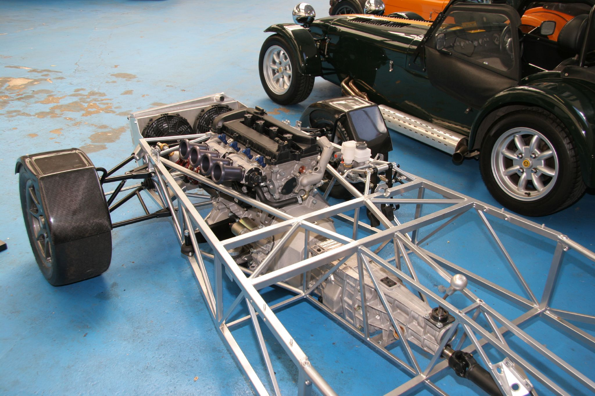 Caterham 7 at Caterham's showroom